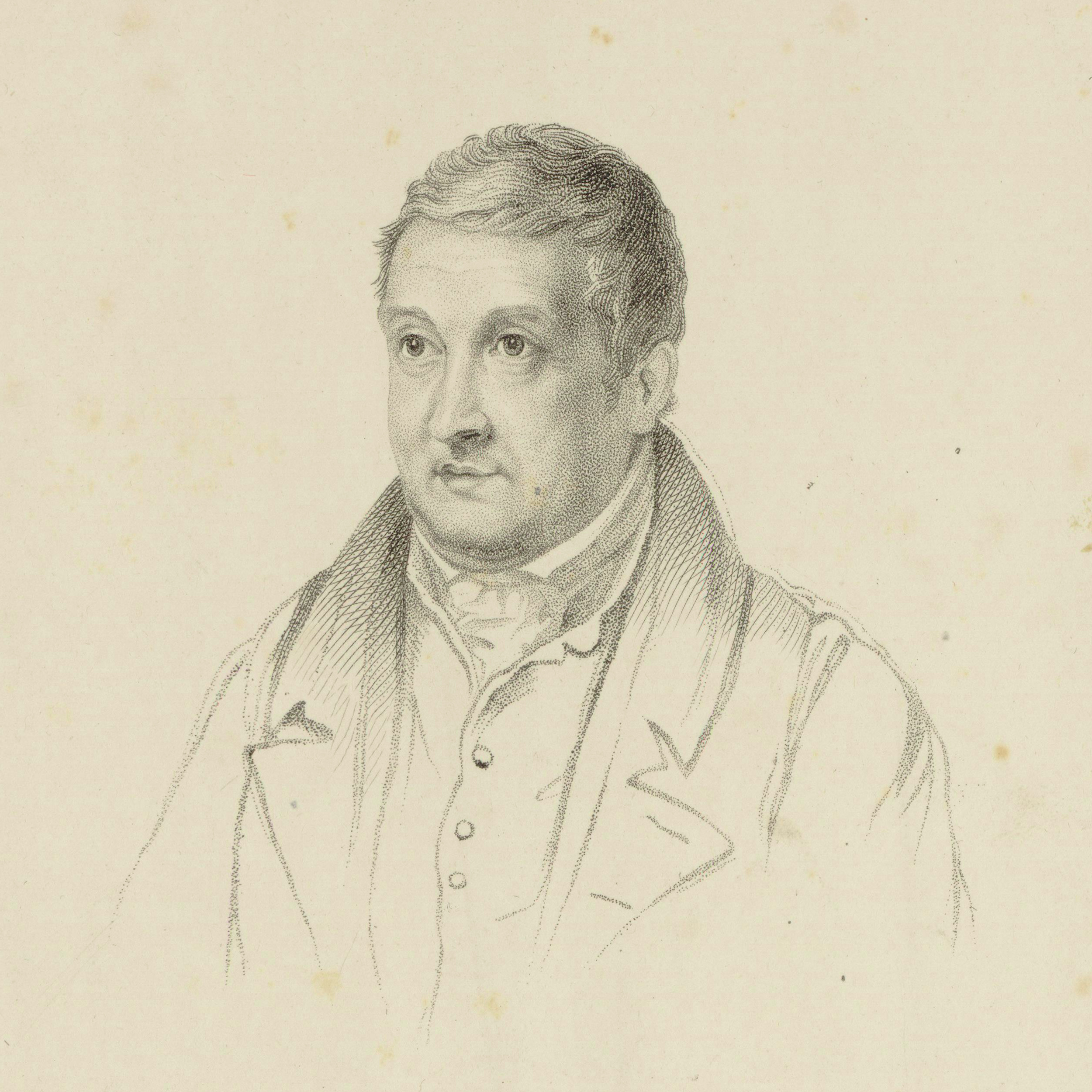 English organist and composer William Crotch (1775-1847)